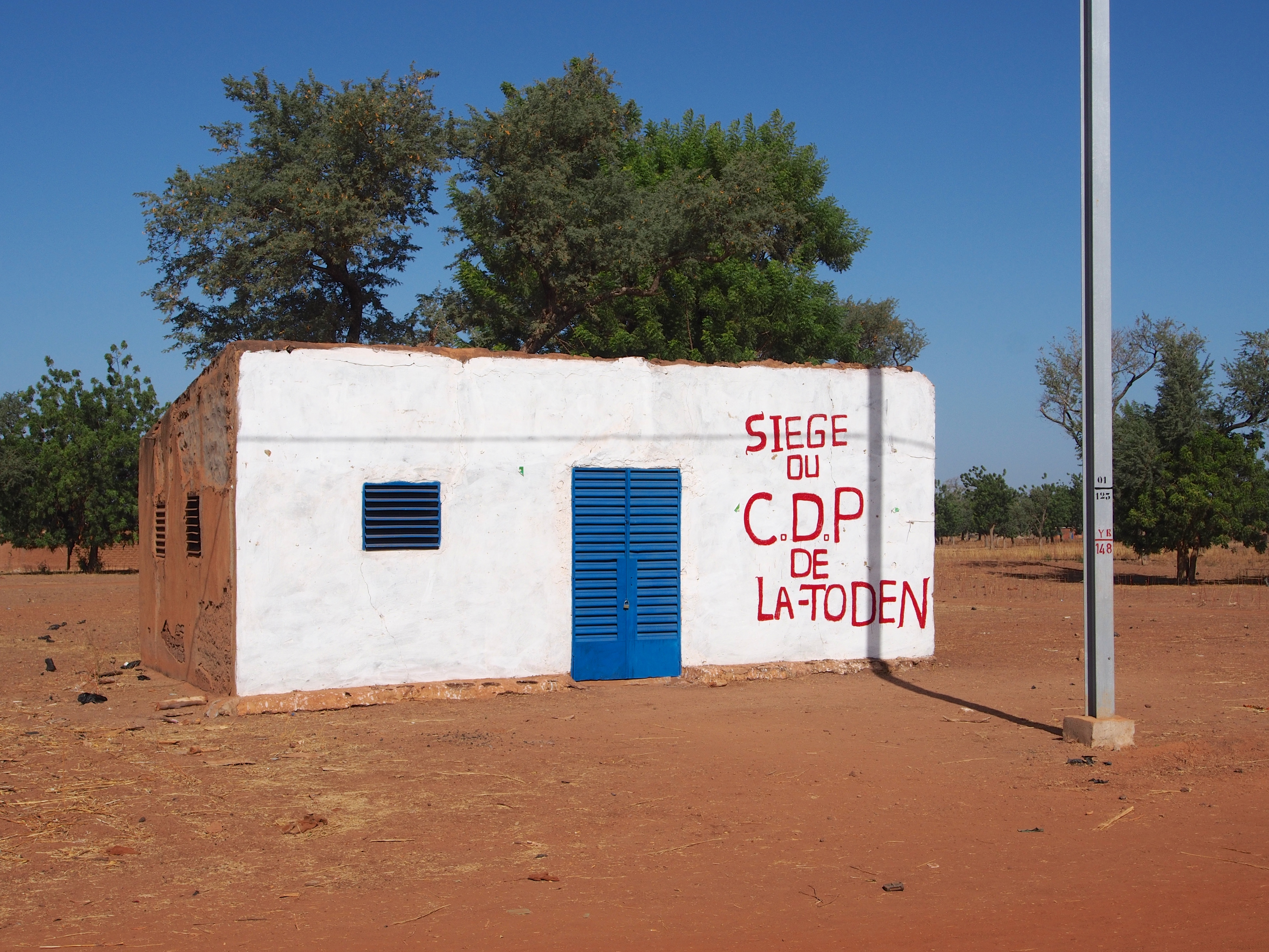 Party's headquarters of the CDP, La Toden, Passoré, Burkina Faso